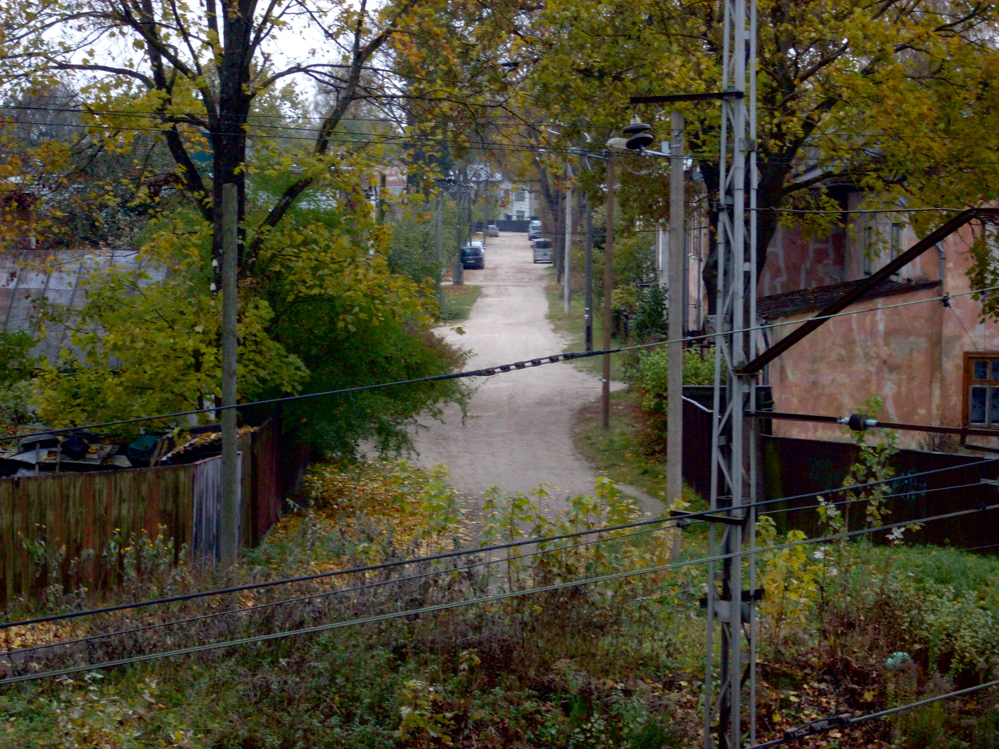 Riga, Abavas street.